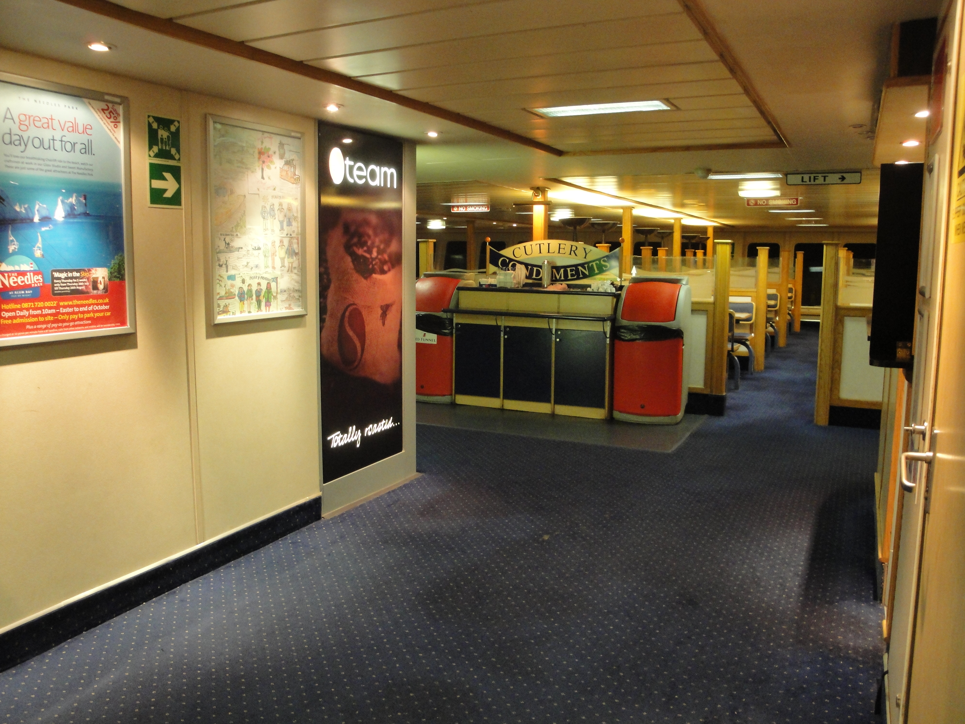 The interior of Red Funnel Red Falcon showing the passenger lounges. This area would normally be full of passengers, but the photo was taken on a late night crossing from Southampton to East Cowes on the Isle of Wight.